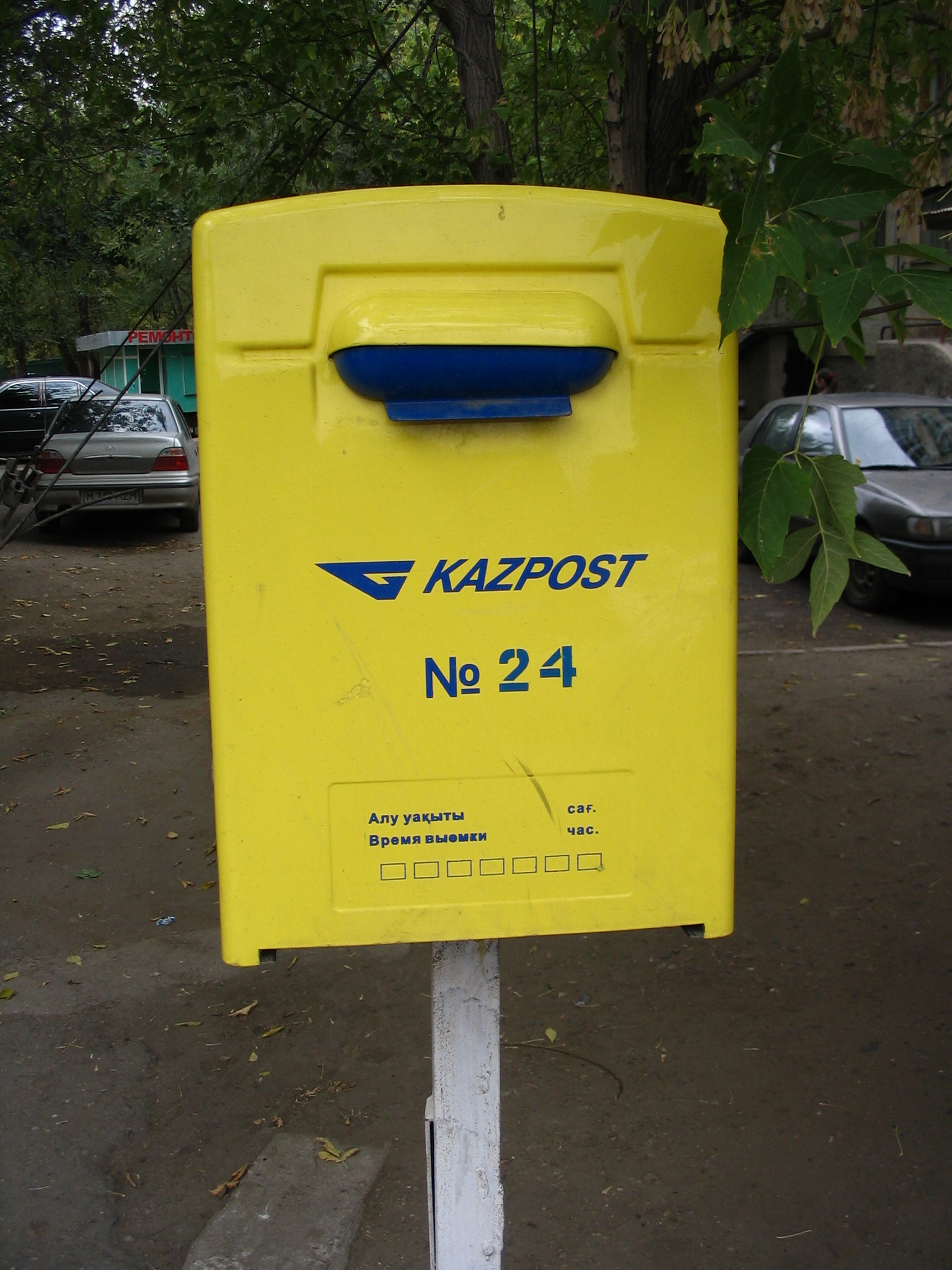 Post box in Karaganda, Kazakhstan